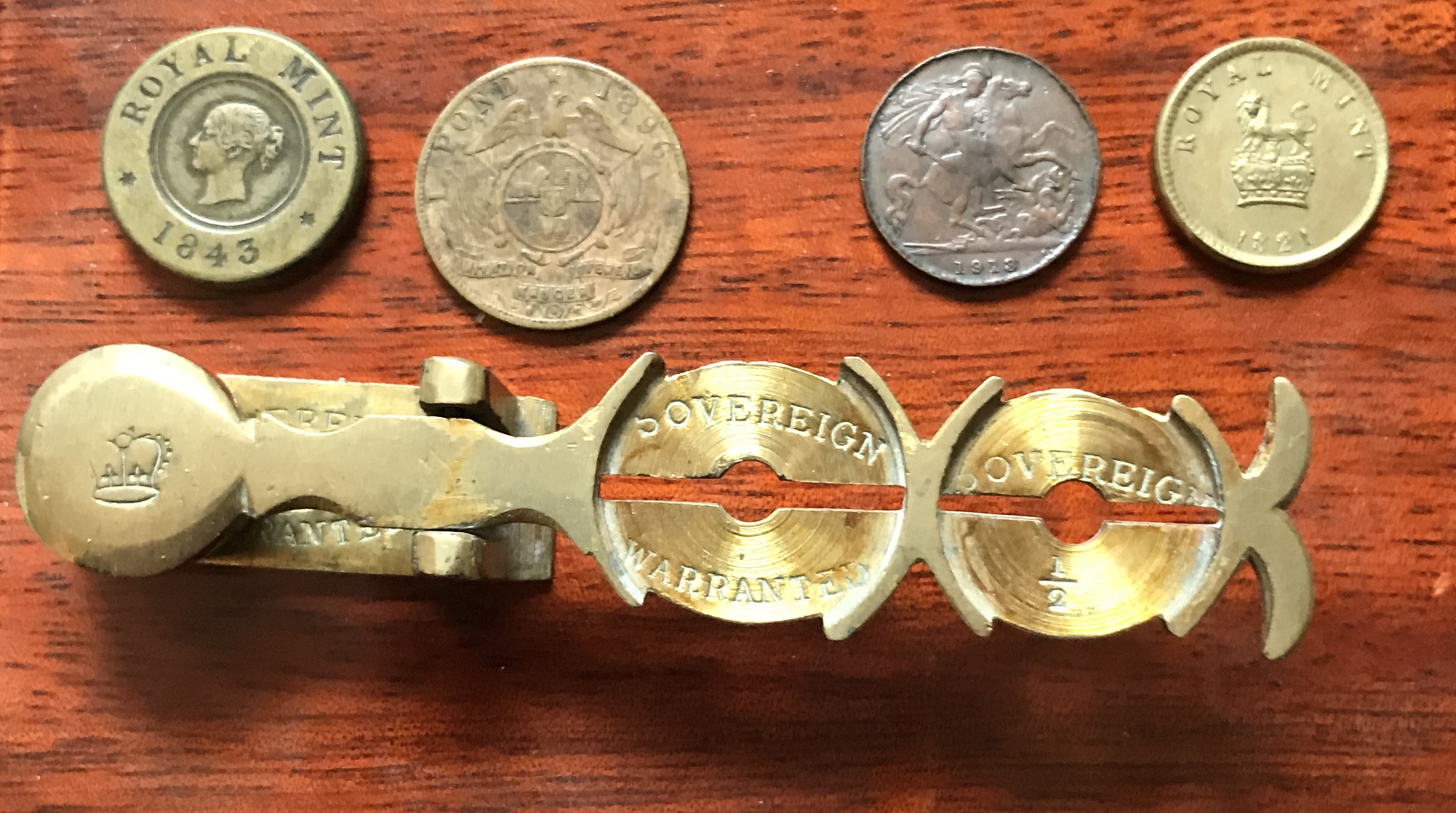 A 19th century sovereign balance for detecting false gold coins; grouped with two coin weights and two counterfeit or replica coins.